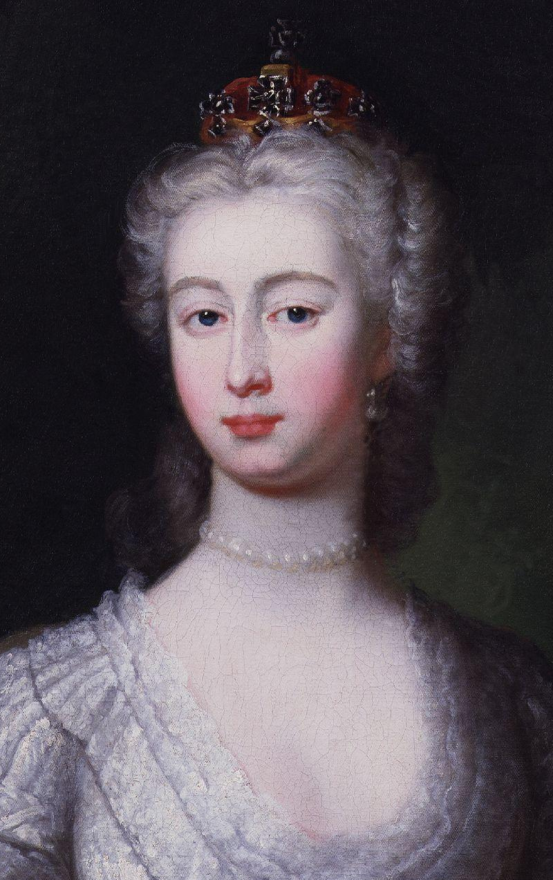 Cropped from Augusta of Saxe-Gotha, Princess of Wales